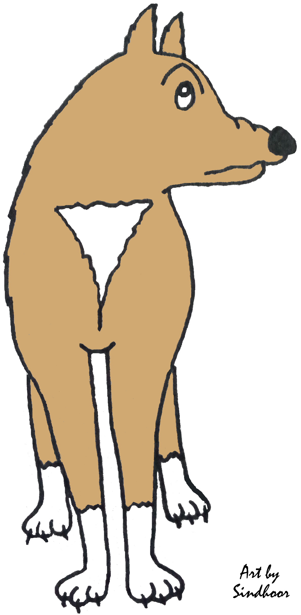 Looking away is a calming signal